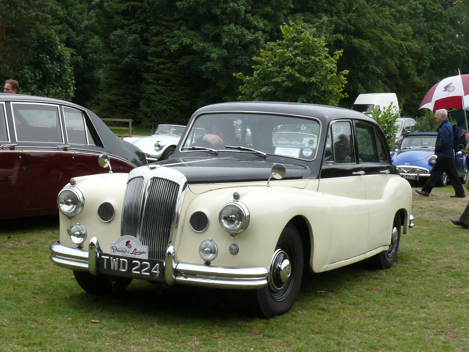 Daimler 104 [TWD 224] Daimler & Lanchester Owners Club, International Rally, Queen's Birthday weekend, Sandringham, Norfolk Sunday 12 June 2011 (DVLA) 3468cc, reg 18 February 1956